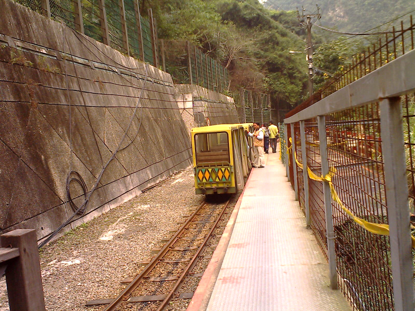 Wulai Scenic Train